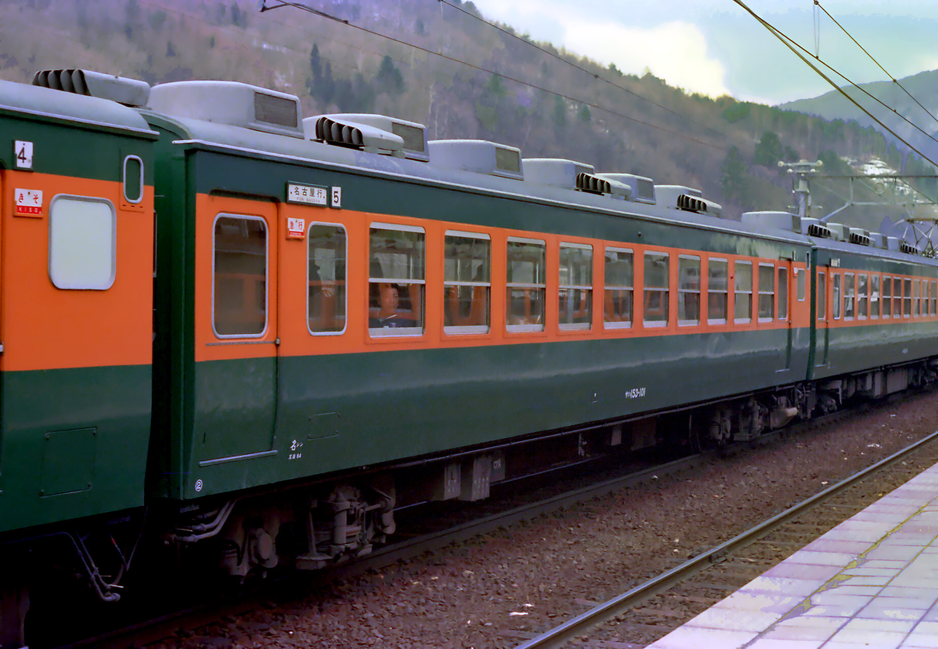 Japanese National Railways 153 series EMU trailer car SaHa 153-101 inserted in a 165 series EMU set at Narai Station on a Chuo Main Line Kiso express service for Nagoya